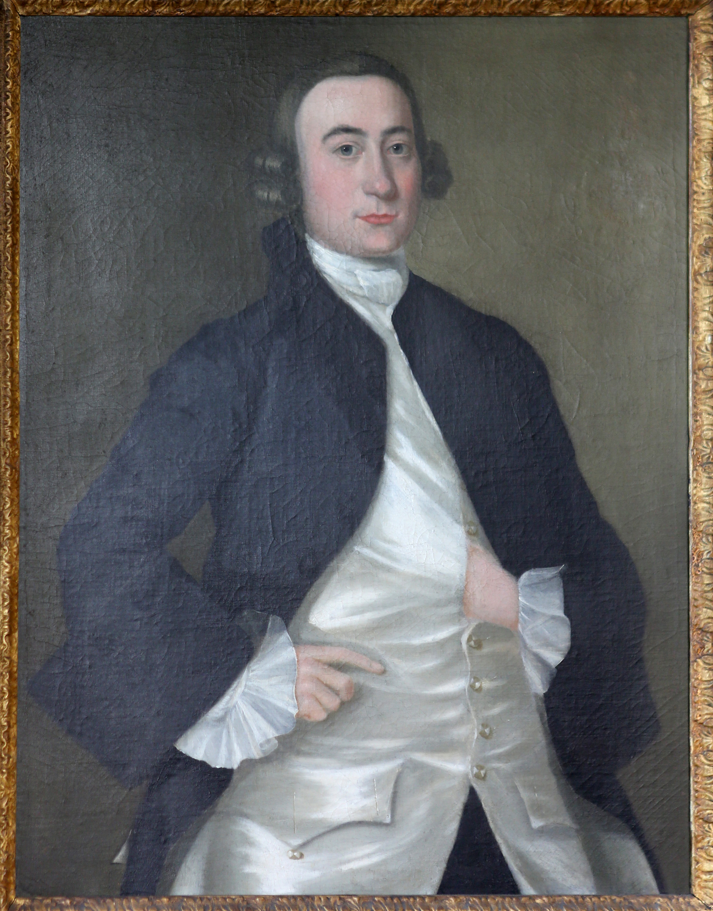 Portrait of a young Tristram Dalton of Newburyport, Massachusetts, painted between 1750 - 1758 by Joseph Blackburn.